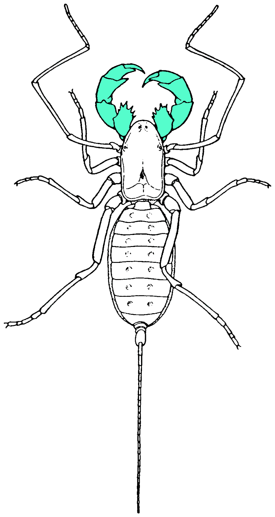 Adapted from several sources. History of Image:Pedipalp in green.jpg 2007-10-02T03:54:34Z Talionis (Talk